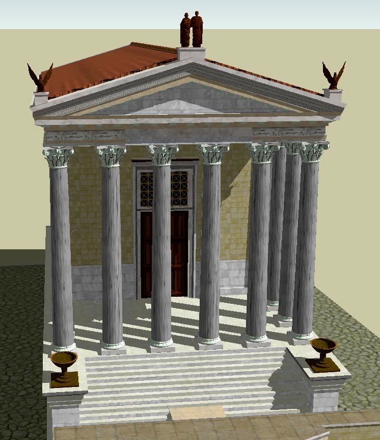 This is a derivative work of a 3D, Computer generated image of the Temple of Antoninus and Faustina by the model maker, Lasha Tskhondia. Variations to the original model include shadows, adjusted for good lighting as well as the file being adjusted for color and contrast.